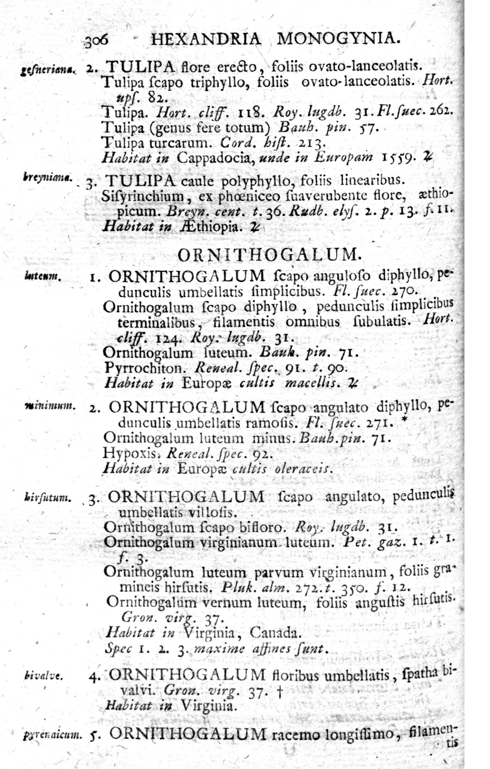 Linnaeus' original description of Ornithogalum